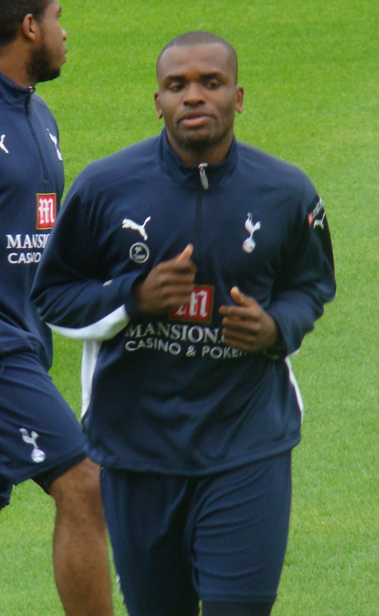 Darren Bent training with Tottenham Hotspur ahead of their match against Peterborough United at London Road Stadium, Peterborough on 21 July 2009